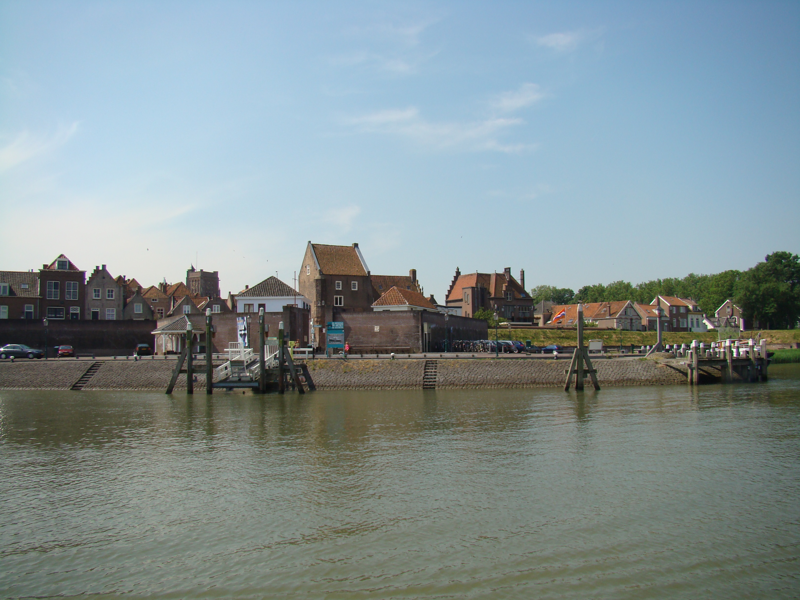 Impressions of Woudrichem, Netherlands Impressions of Woudrichem